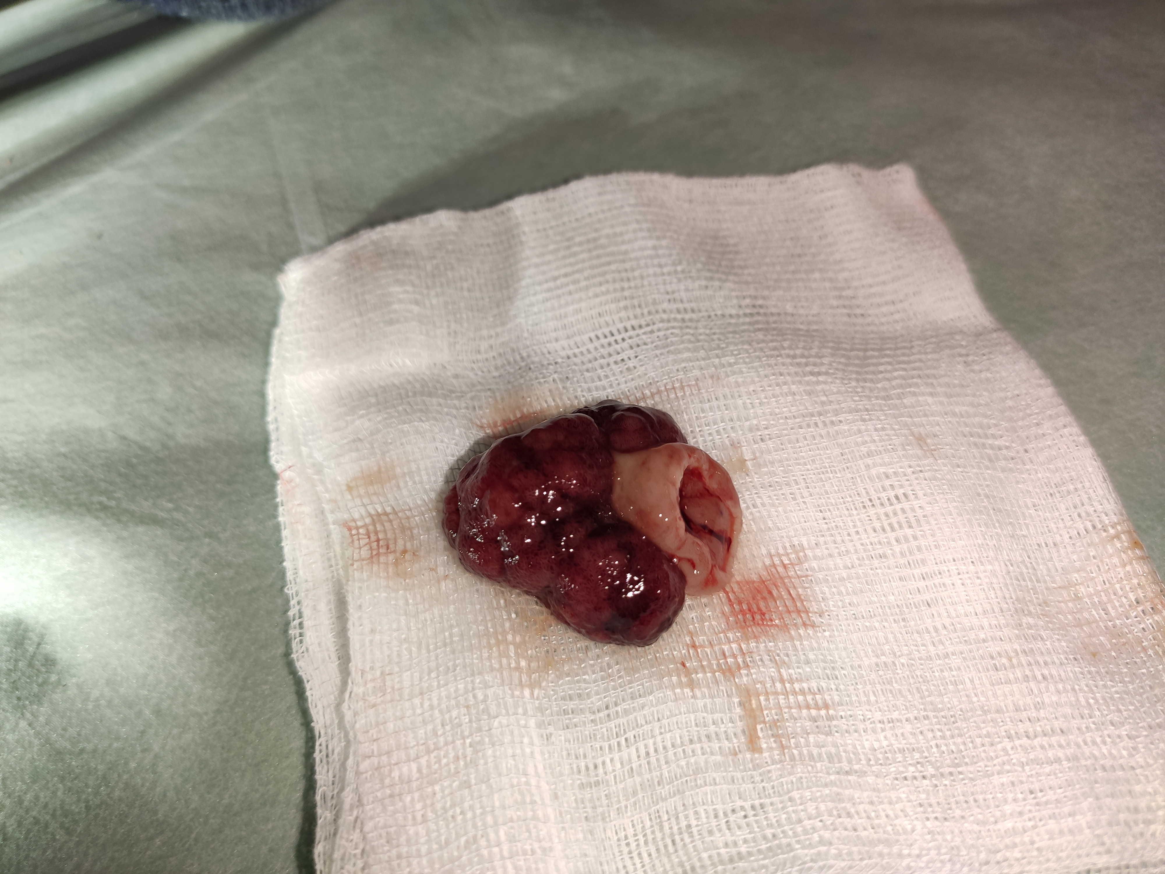 Pedunculated polyp with head circa 40 mm diameter.